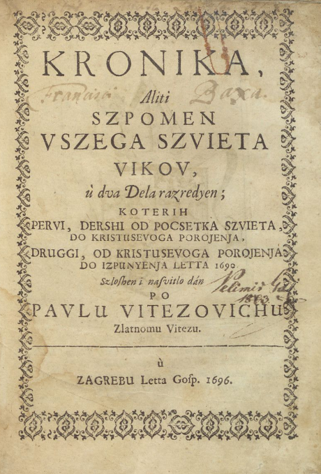 cover of Kronika, Aliti spomen vsega szvieta vikov, 1696, written and published by Pavao Ritter Vitezović